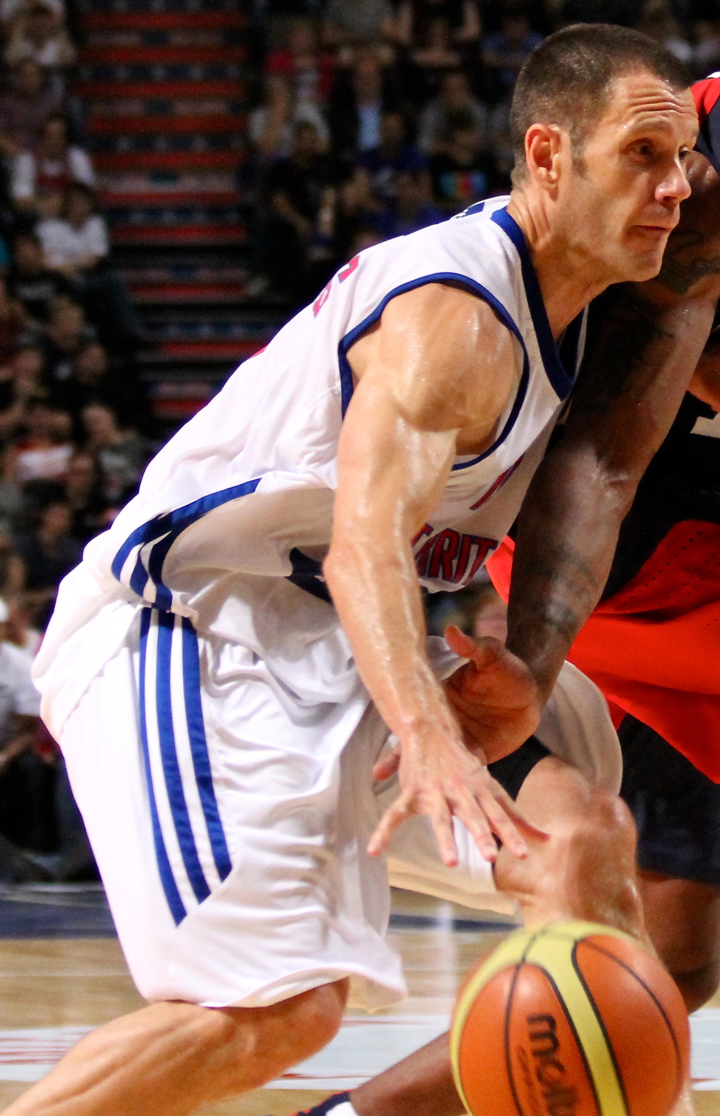 Nate Reinking of Great Britain defended by Kobe Bryant of the United States